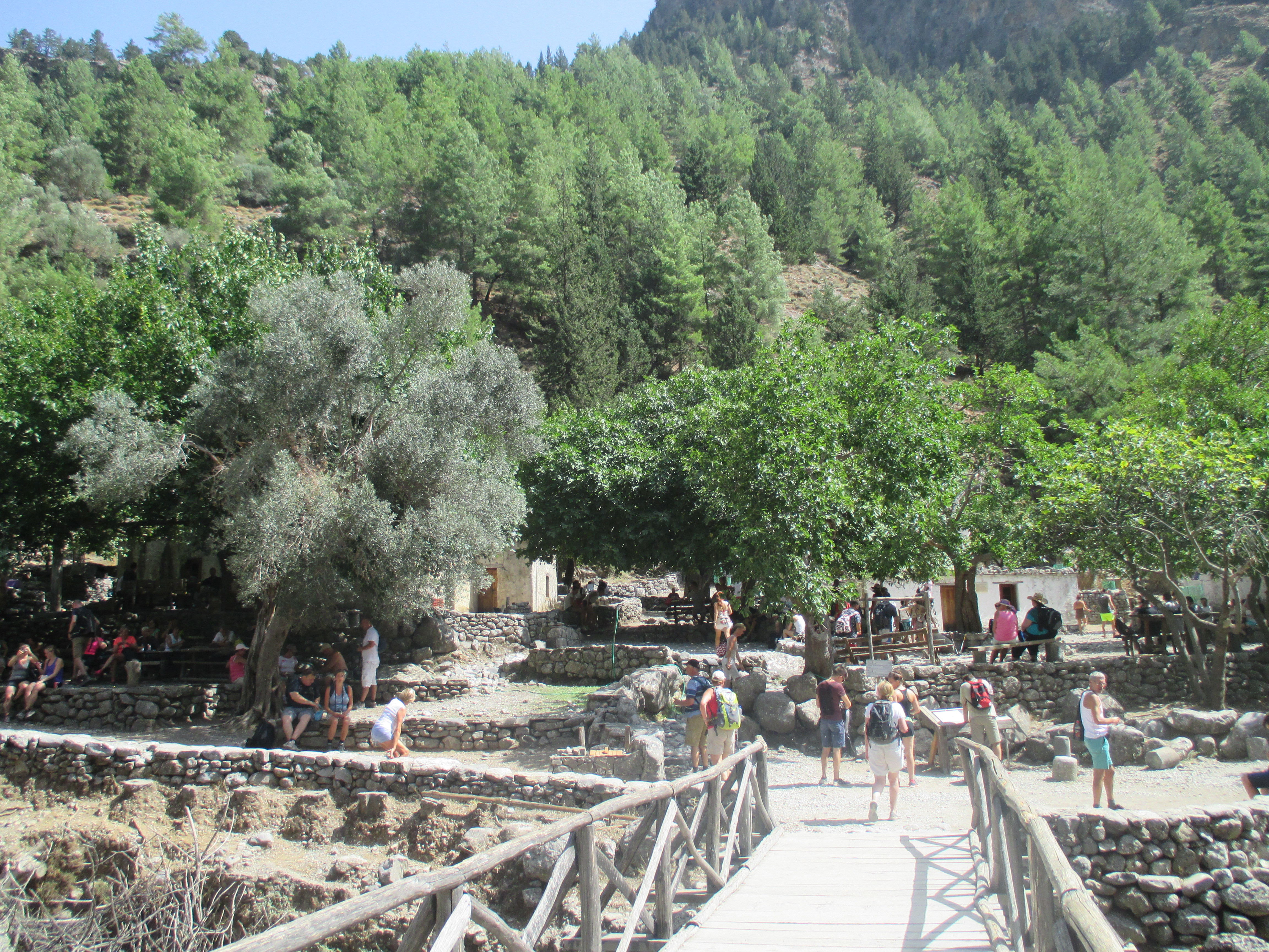 Deserted Samaria village, Samaria Gorge, Crete.